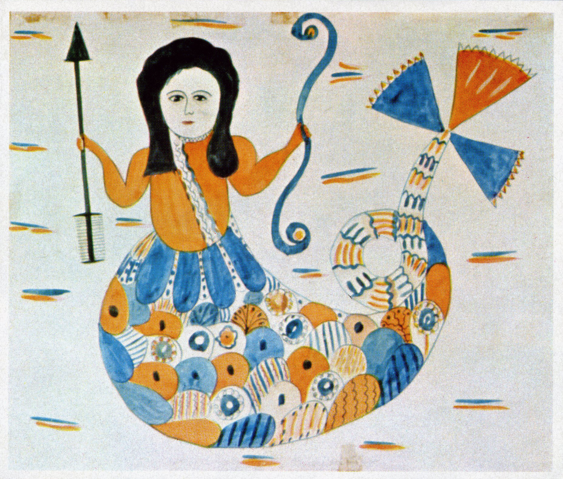 Mary Ann Willson, Marimaid, ca. 1820. Watercolor, New York State Historical Association, Cooperstown